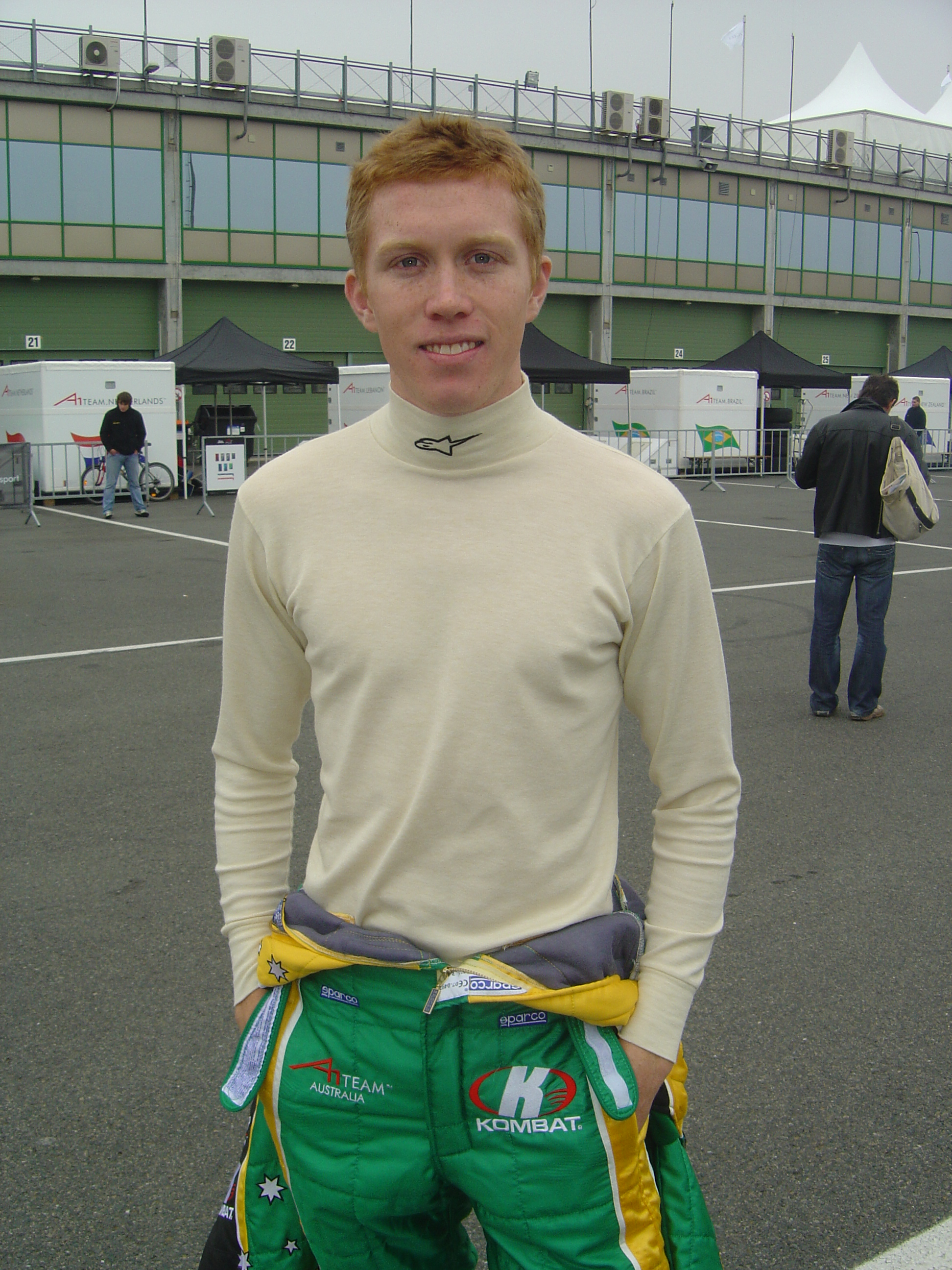 Ian Dyk: the photo was taken during 2007's A1GP race weekend at Brno